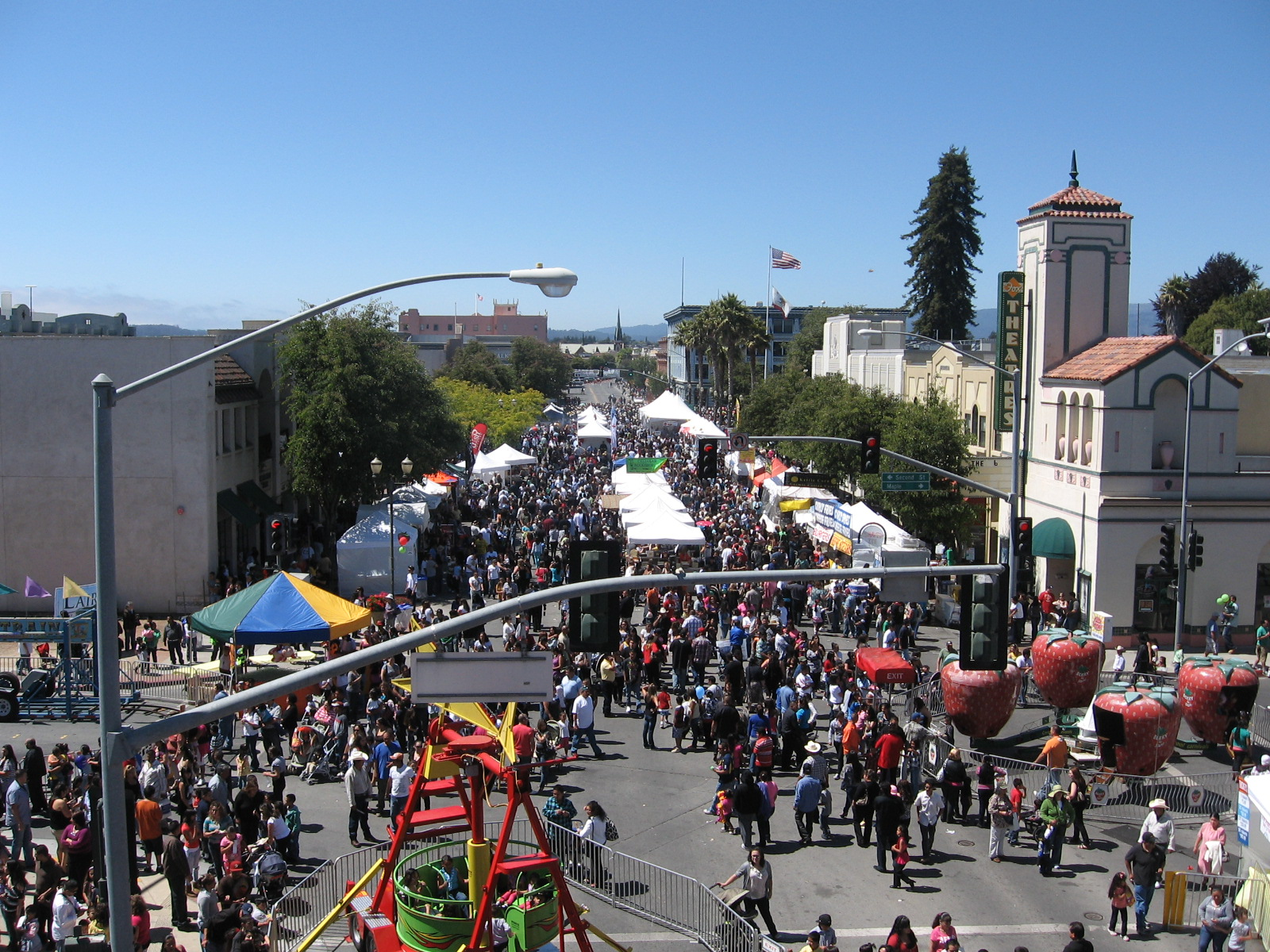 Watsonville Strawberry Festival 2010. Looking north on Main Street in downtown Watsonville. Picture shows approximately one third of the festival grounds.